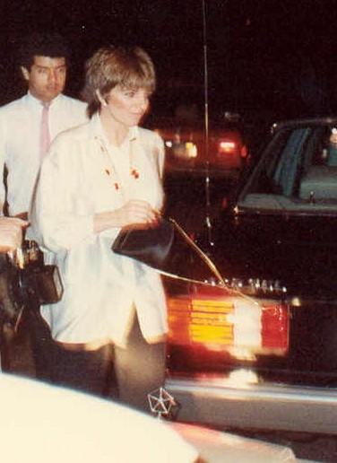 Liza Minnelli arrives at the original Spago on Sunset Boulevard, 1988